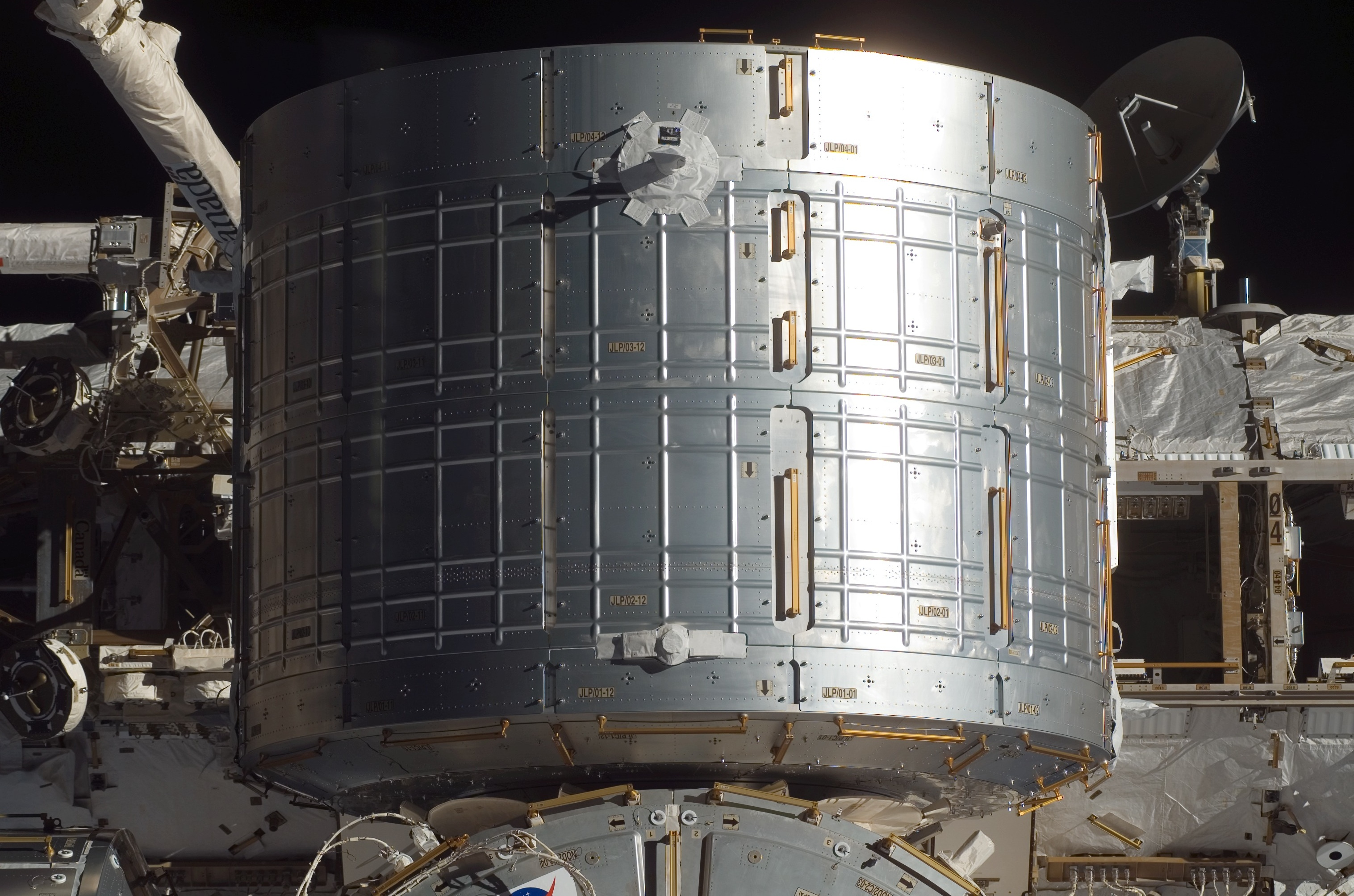 The newly installed Japanese Logistics Module - Pressurized Section (JLP) of the International Space Station is photographed from Space Shuttle Endeavour as the two spacecraft begin their relative separation. The JLP is the first pressurized component of the Japan Aerospace Exploration Agency's Kibo laboratory and the newest component of the station. Earlier the STS-123 and Expedition 16 crews concluded 12 days of cooperative work onboard the shuttle and station. Undocking of the two spacecraft occurred at 7:25 p.m. (CDT) on March 24, 2008.